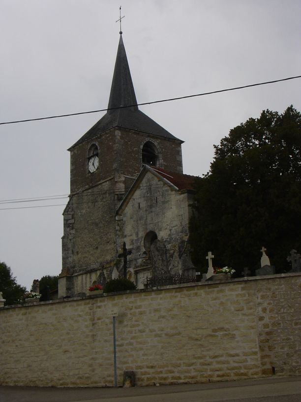 Saint-Maurice's church in Rouvres-les-Vignes (Aube, Champagne-Ardenne, France).